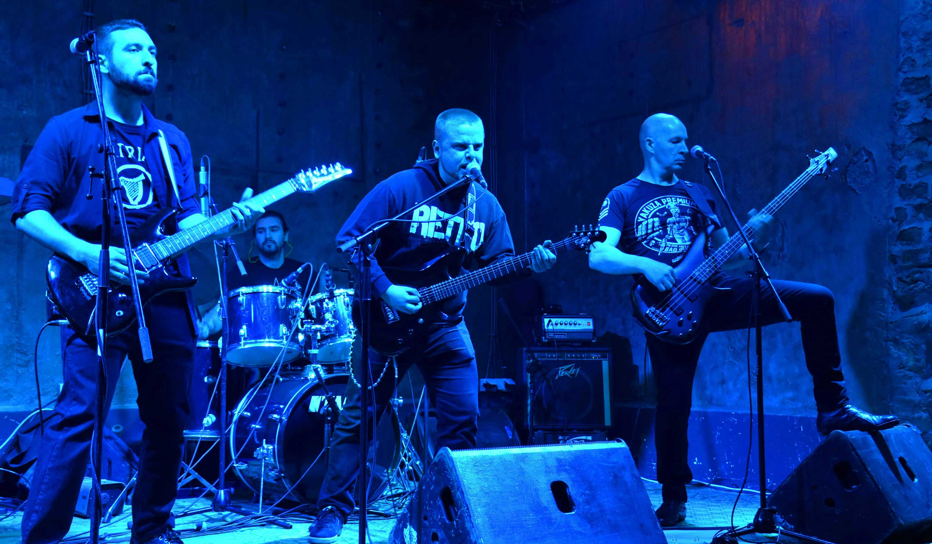 Patrias, heavy metal bend from Smederevo, Serbia